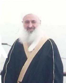 Mashehadani01